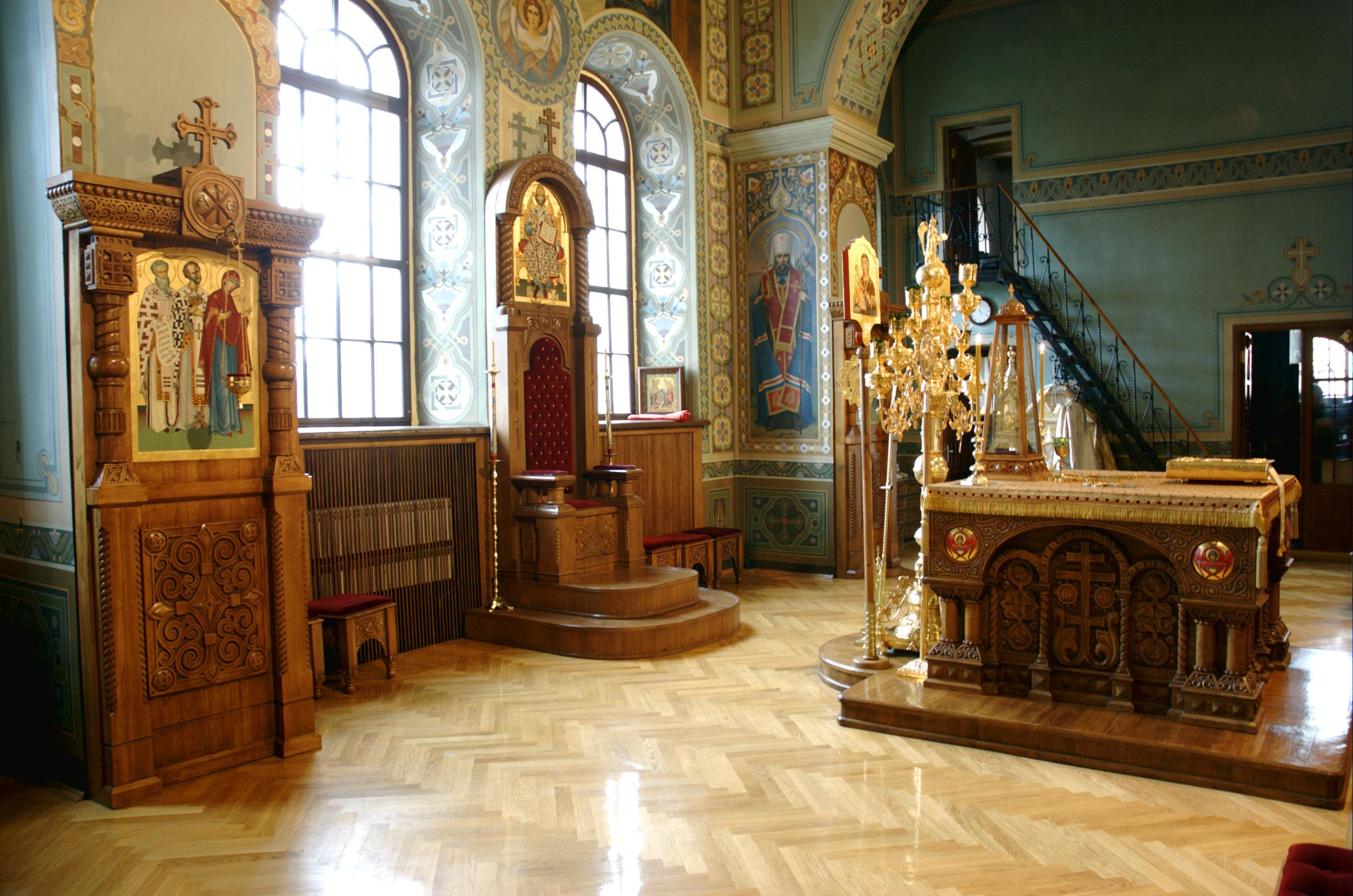 Main altar of Holy Trinity church in Ioninsky monastery